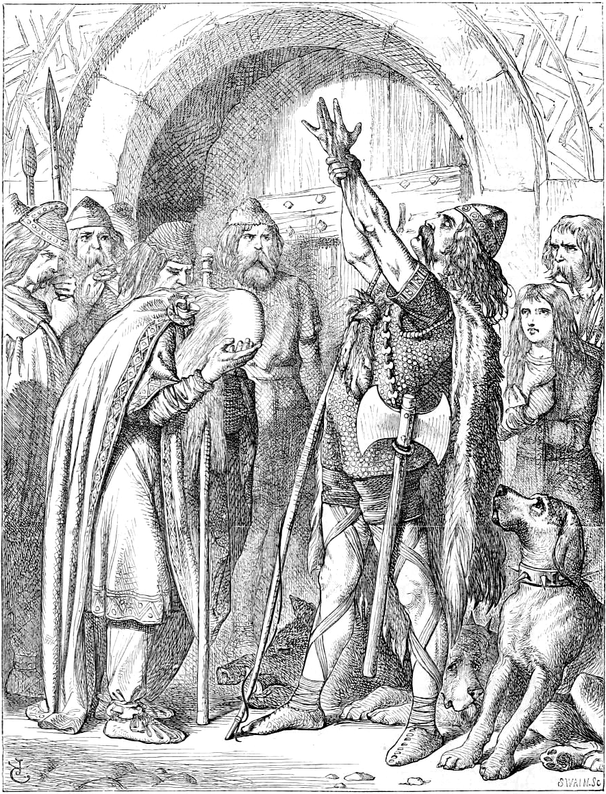 Woodcut illustration for a ballad. Noménoë, the 9th-century Breton chief, returns from hunting (with blood still on his hands) and is told that the son of the elderly chief of Mount Aré has been cruelly killed by the Frankish invaders. He vows that he will not clean his hands until he has driven the Franks out of Brittany.